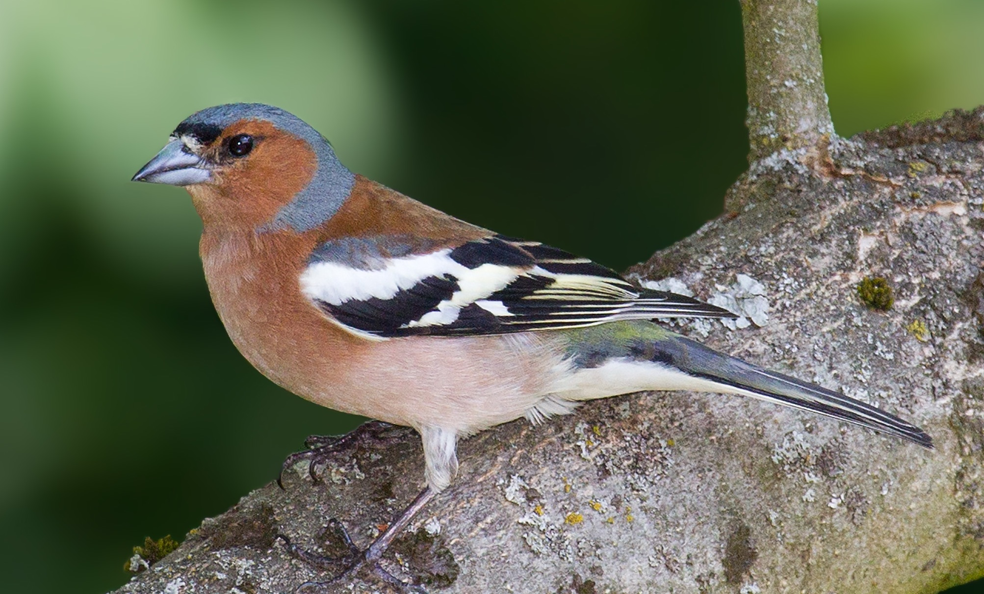 Chaffinch